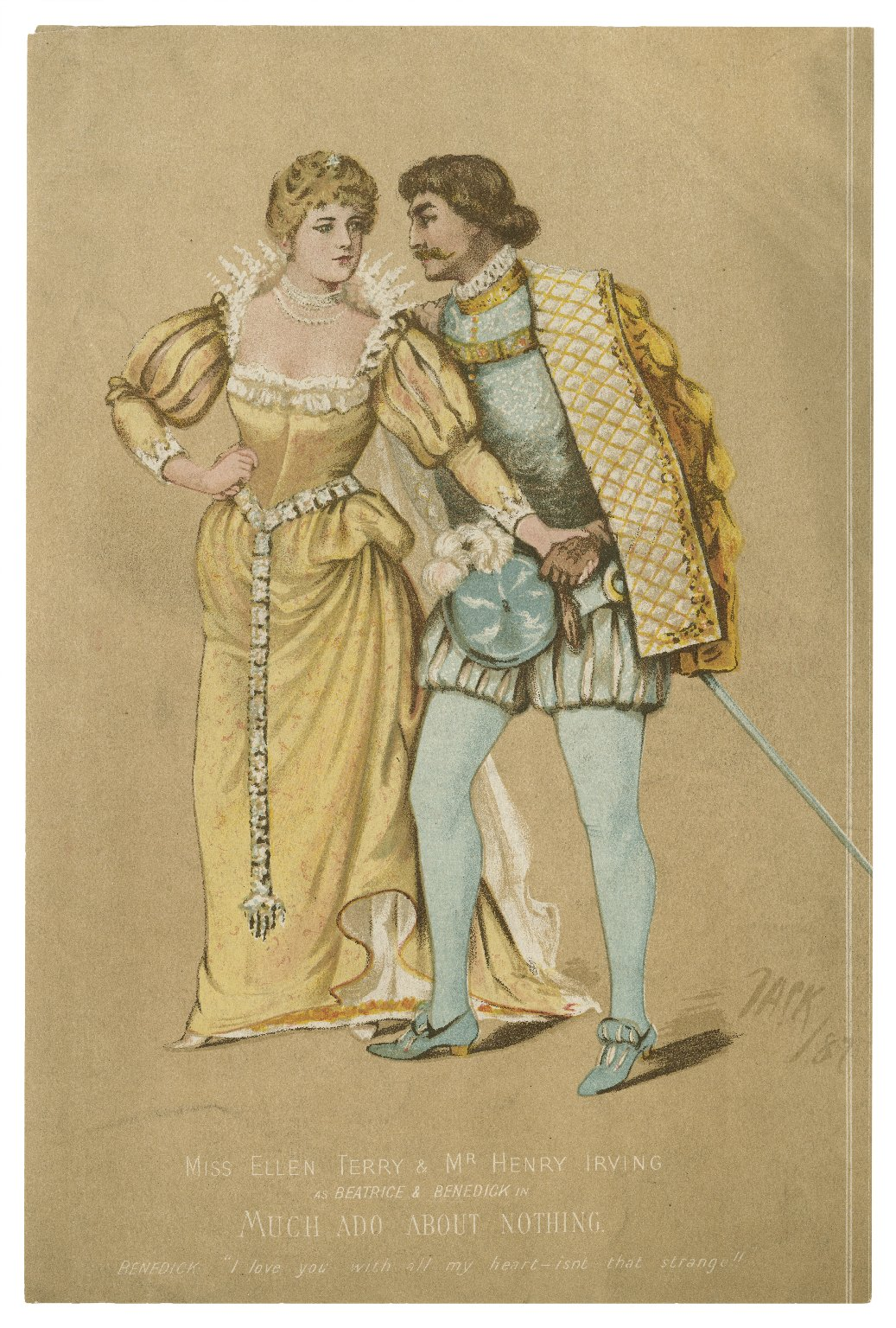 Print of Ellen Terry as Beatrice and Henry Irving as Benedick in Shakespeare's Much Ado About Nothing.